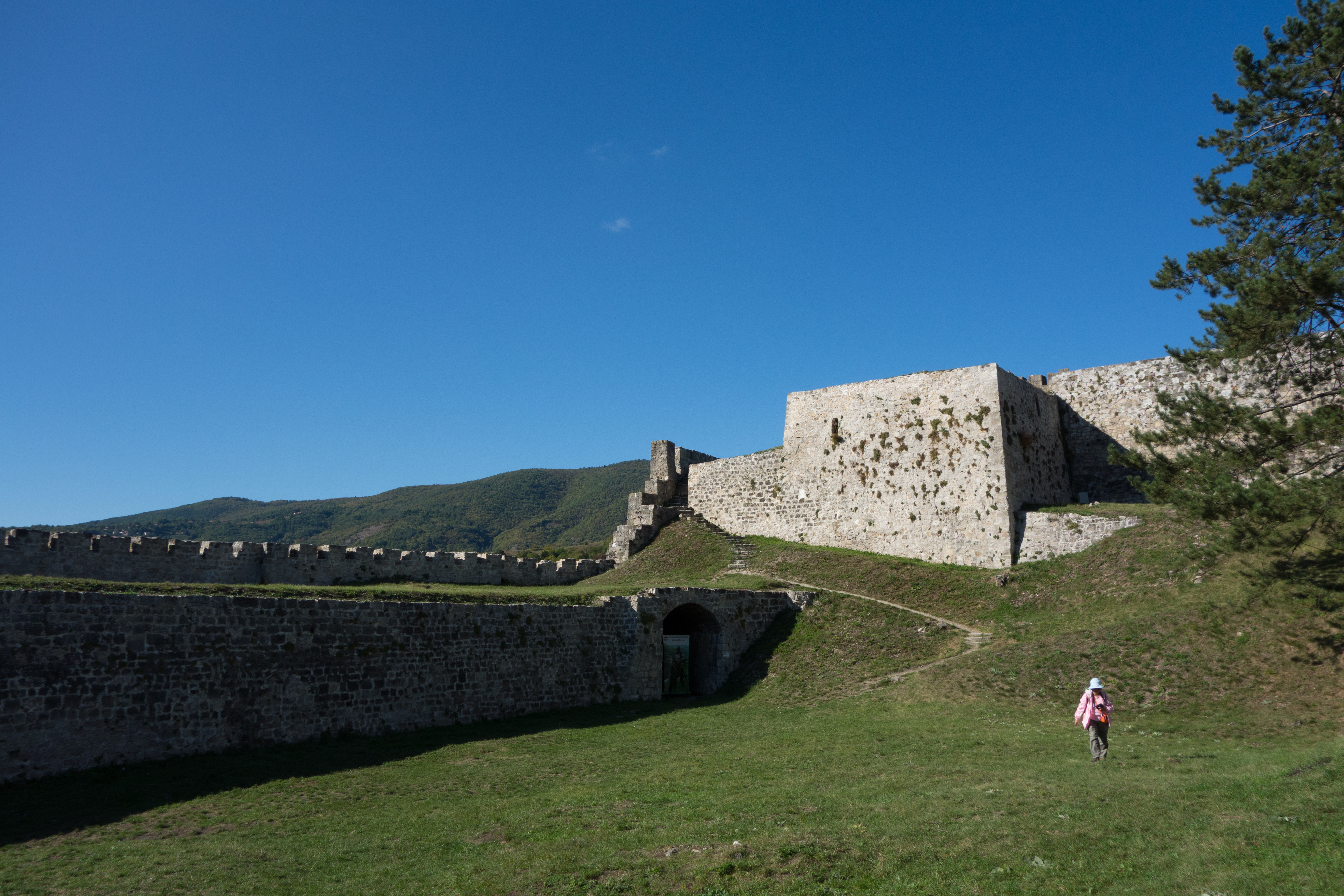 (Untitled)